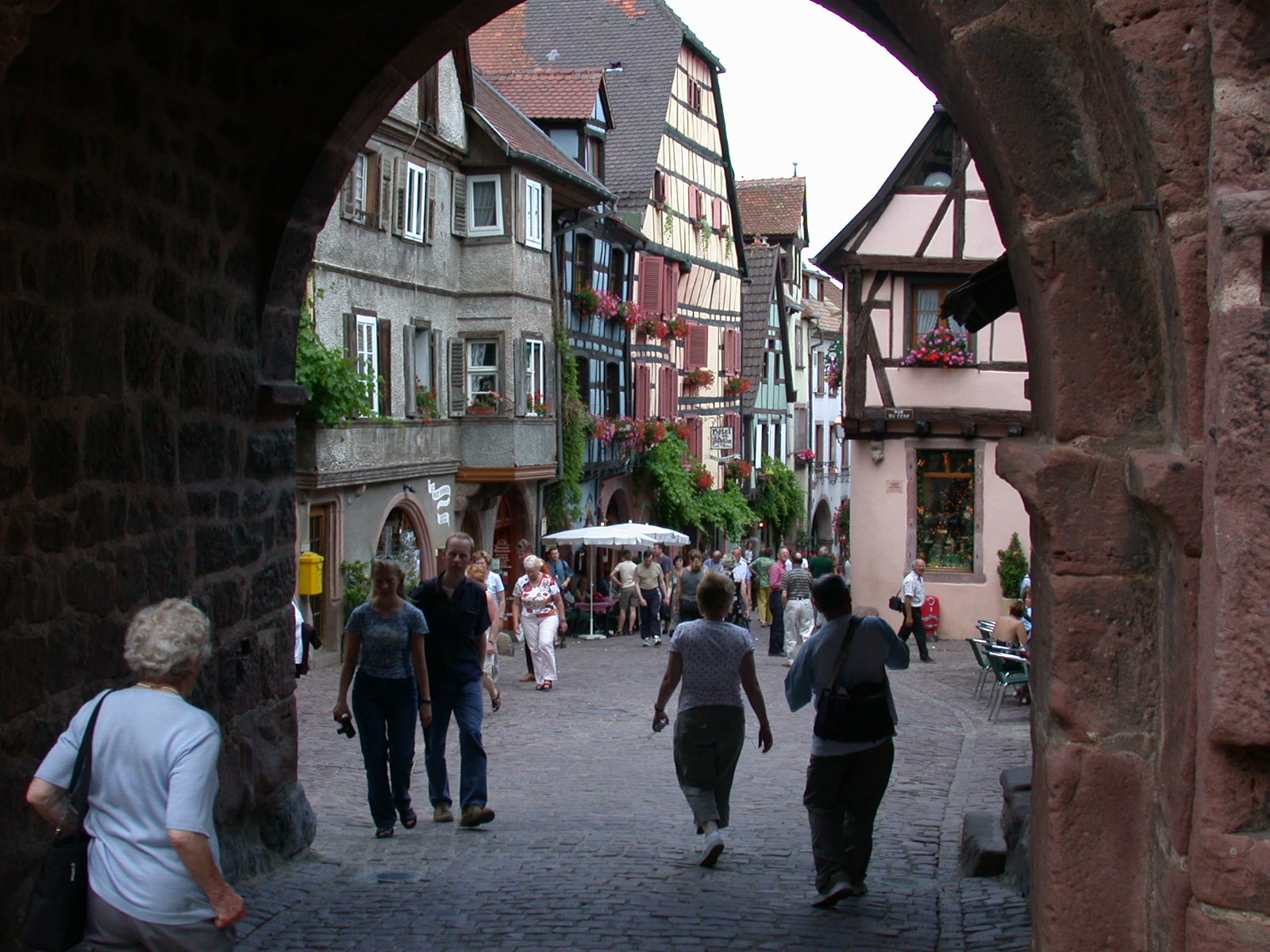 View from the Dolder, Riquewihr, France Photograph: Mschlindwein, on June 27, 2005